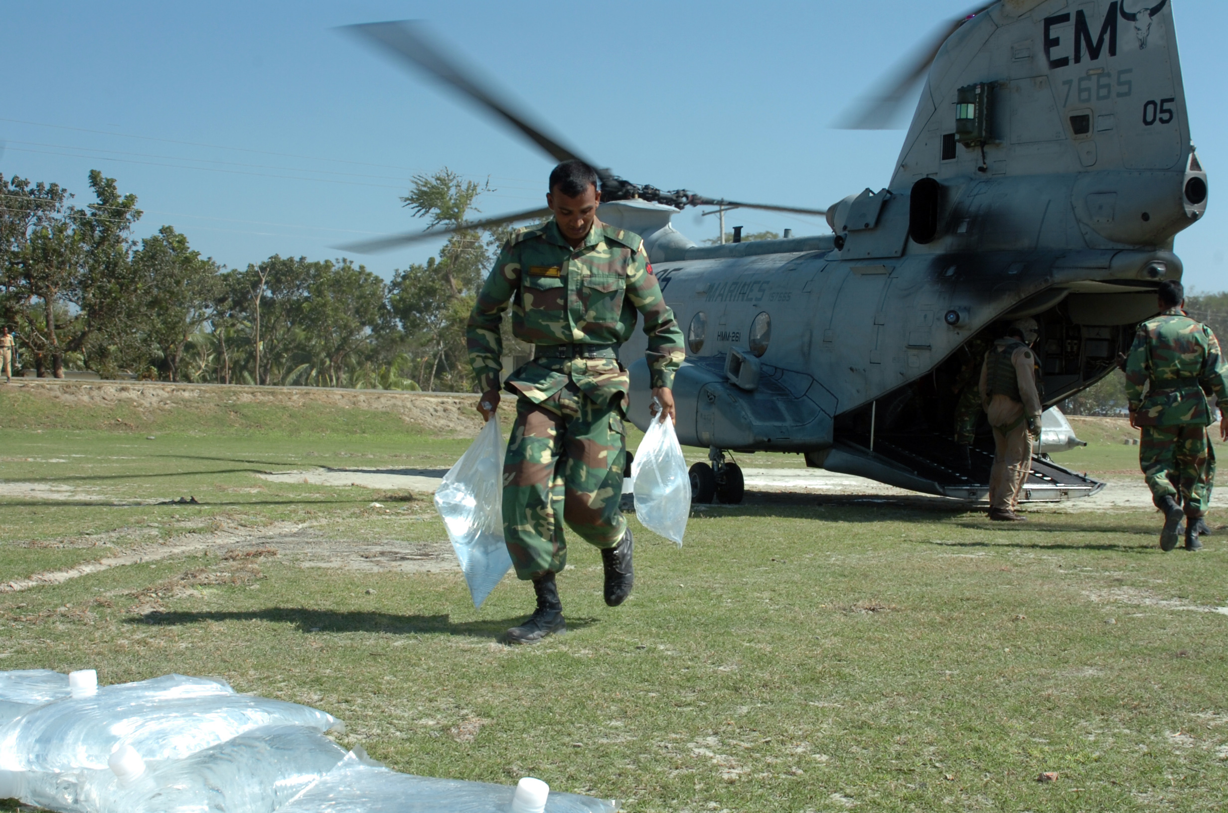 BANGLADESH (Nov. 26, 2007) A member of the Bangladesh Army helps unload bags of purified water from a CH-46 Sea Knight assigned to the amphibious assault ship USS Kearsarge (LHD 3). Kearsarge and the 22nd Marine Expeditionary Unit are providing humanitarian aid to the victims of Cyclone Sidr, which tore through Bangladesh Nov. 15. The Department of Defense effort is part of a larger United States response coordinated by the U.S. Department of State and U.S. Agency for International Development. U.S. Navy photo by Mass Communication Specialist Seaman Ash Severe (Released)